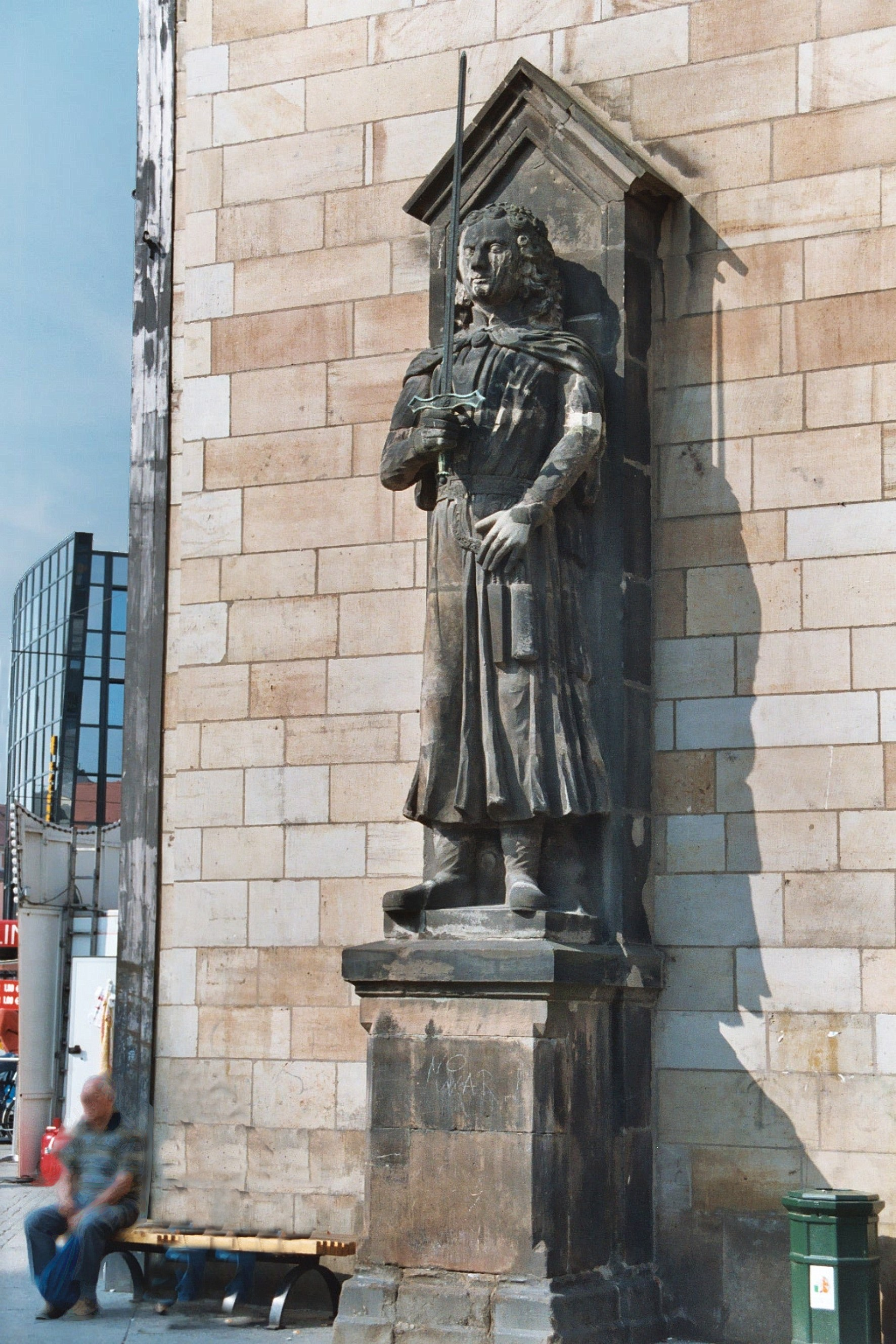 Halle (Saale), the Roland